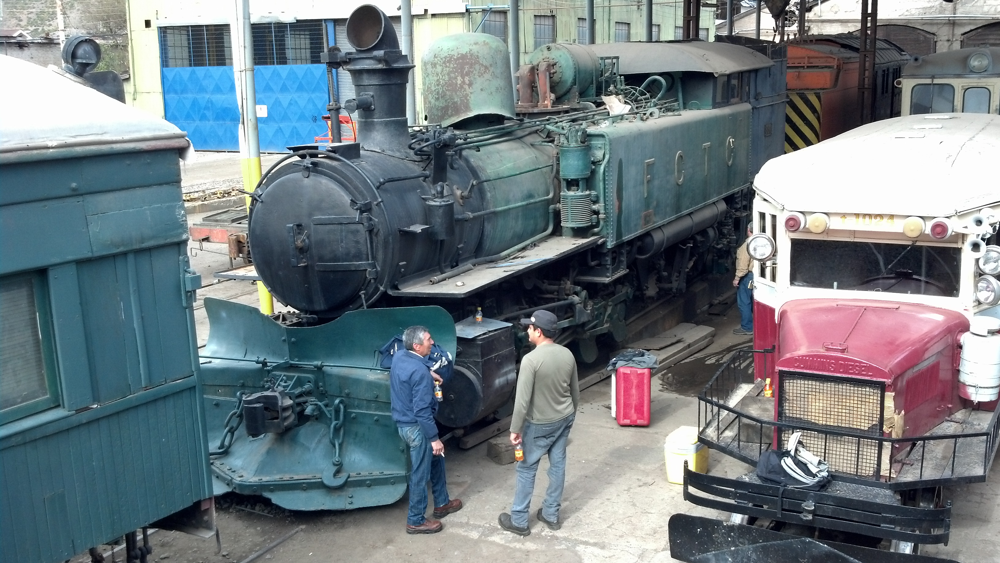 Kitson-Meyer 3348, built in 1909, formerly for the Transandino RR, seen on 8-Sep-2013 at Los Andes Station workshop, Chile. At the time of the picture, this locomotive was under restoration to functional condition, performed by a group of volunteers.